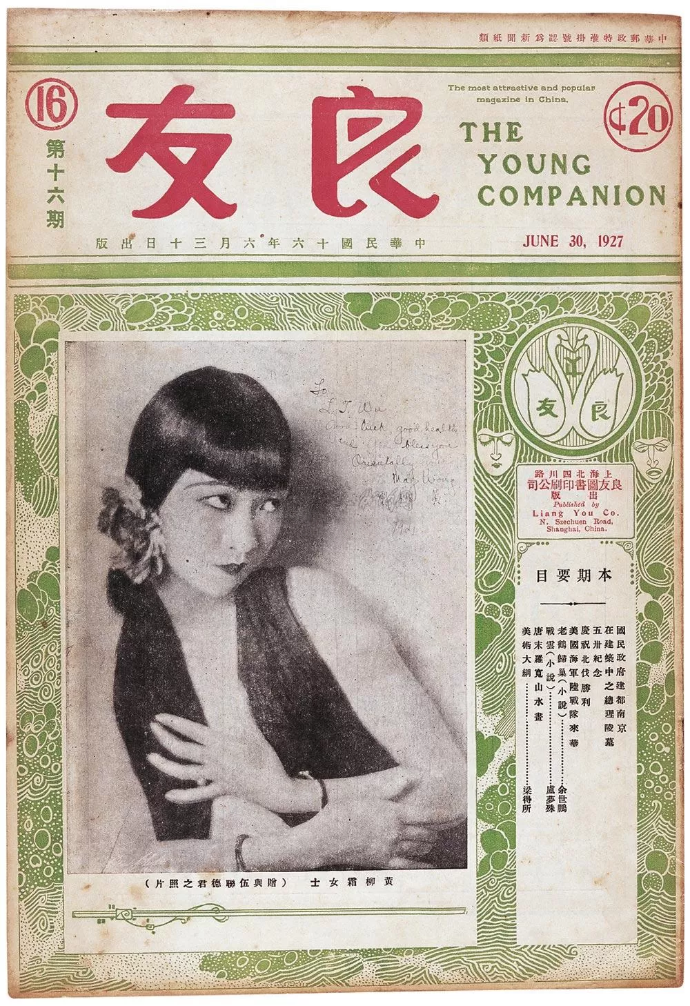 Anna May Wong on the cover of LIangyou (The Young Companion), issue #16